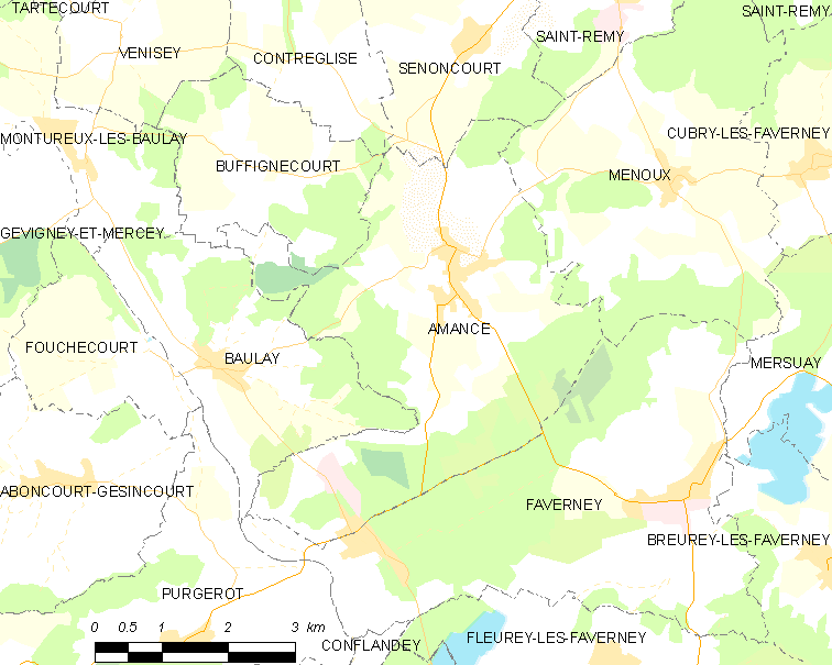 Map of French municipality